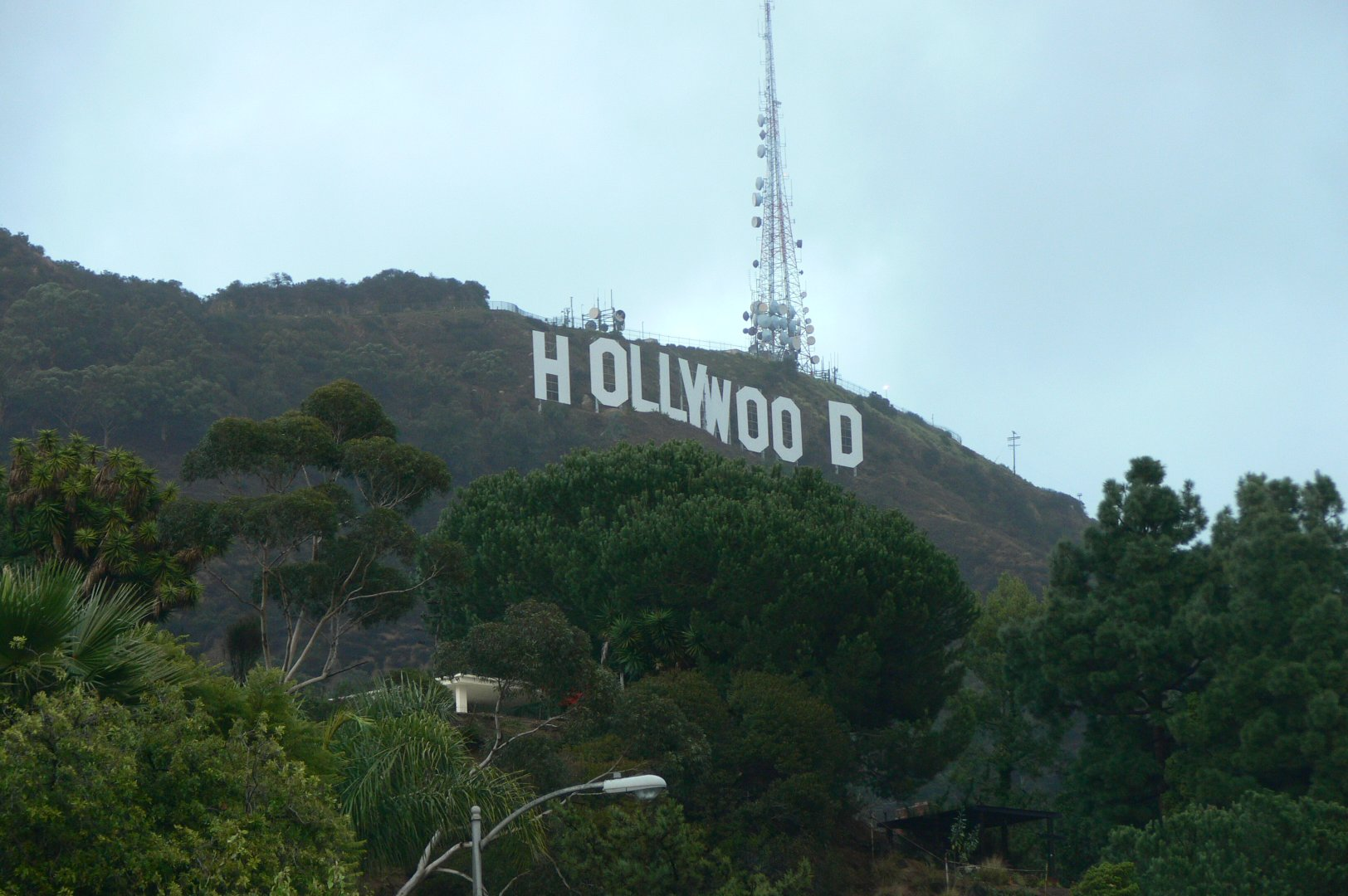 A close-up view of the Hollywood Sign in Hollywood, California. Shot from the residential area northeast of Lake Hollywood. Photograph by Mike Dillon, January 2, 2006.